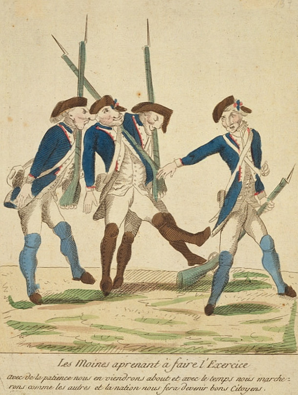 Anonymous caricature from 1790 showing former monks or members of the clergy incorporated into the newly-created National Guard. Translation of caption: "Monks learning to drill. With a bit of patience we'll get the hang of it and end up marching like the others; and the Nation will turn us into good citizens."